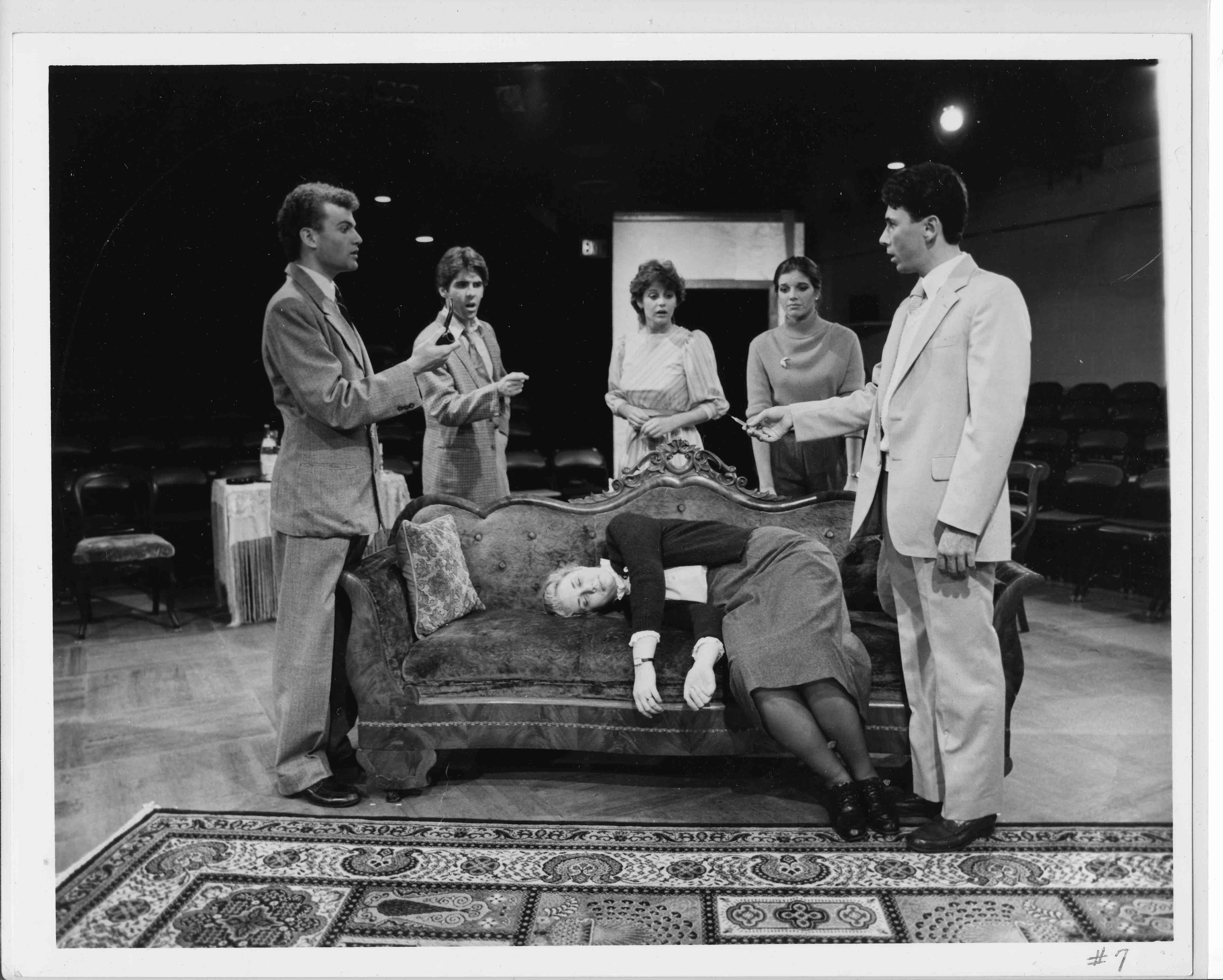 TenLittleIndians_1